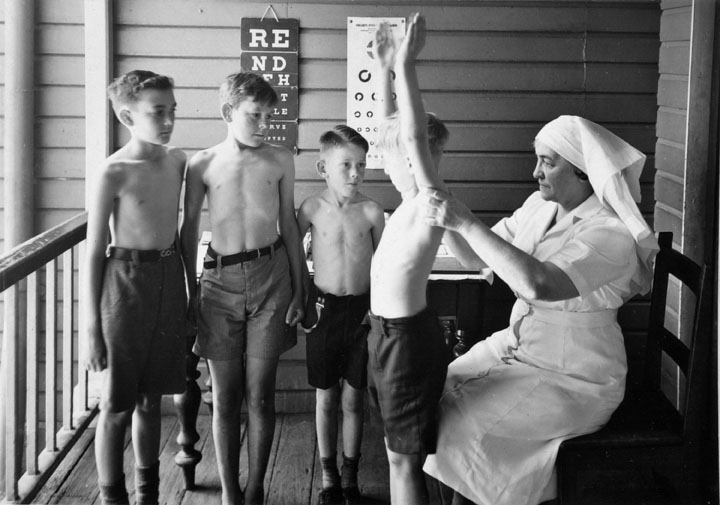 Medical examination with the School Health Services. (The original photograph caption refers to School Health Services for Dr Welch.)